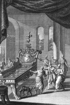 the bed of Og as described in Deuteronomy 3:11